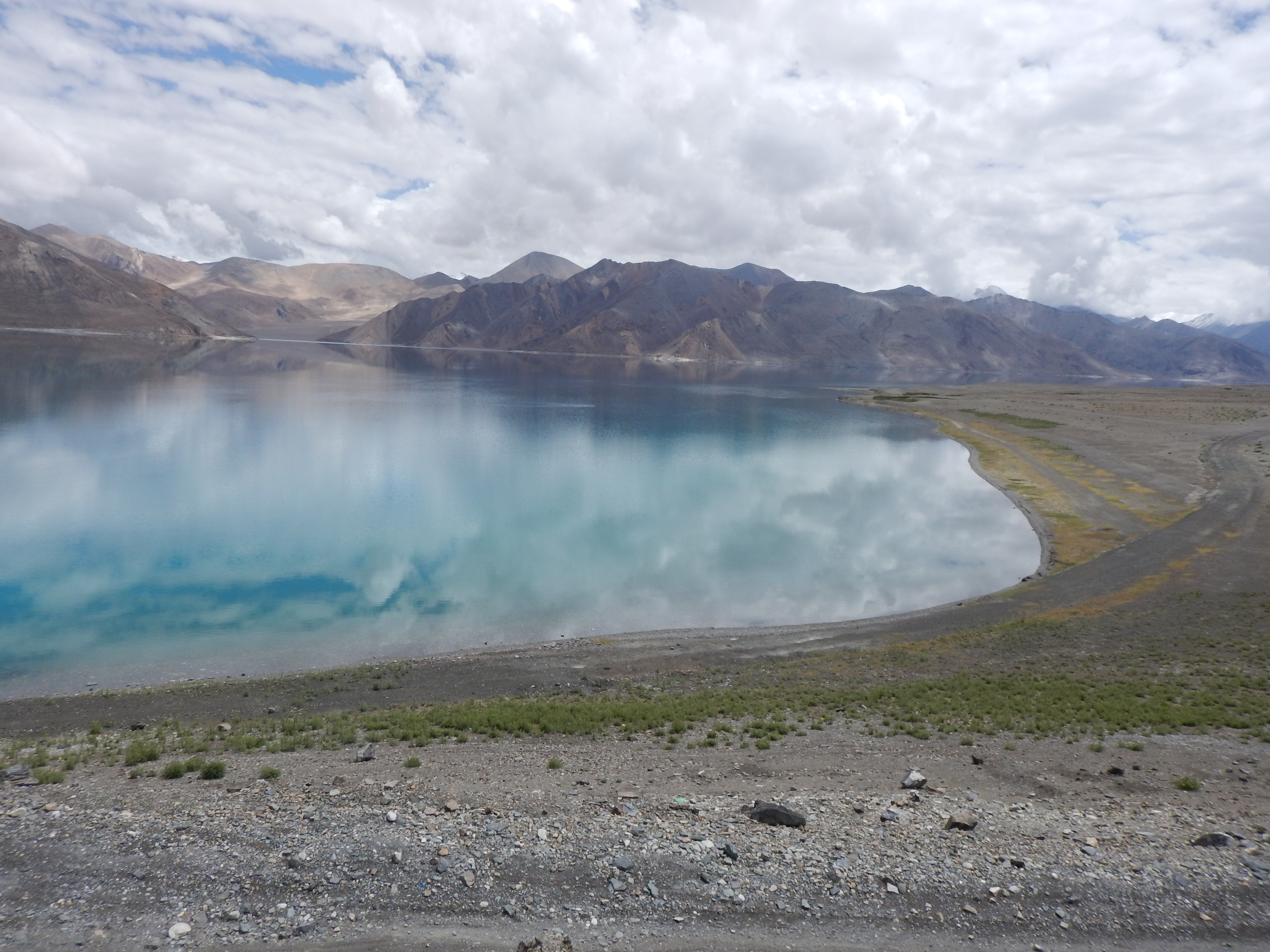 23rd July 2015